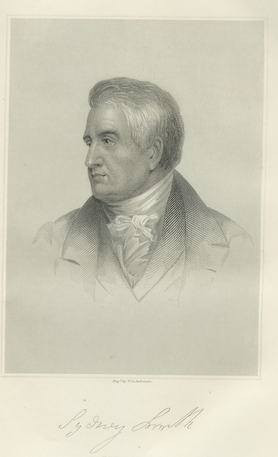 Image of Sydney Smith, writer and clergyman